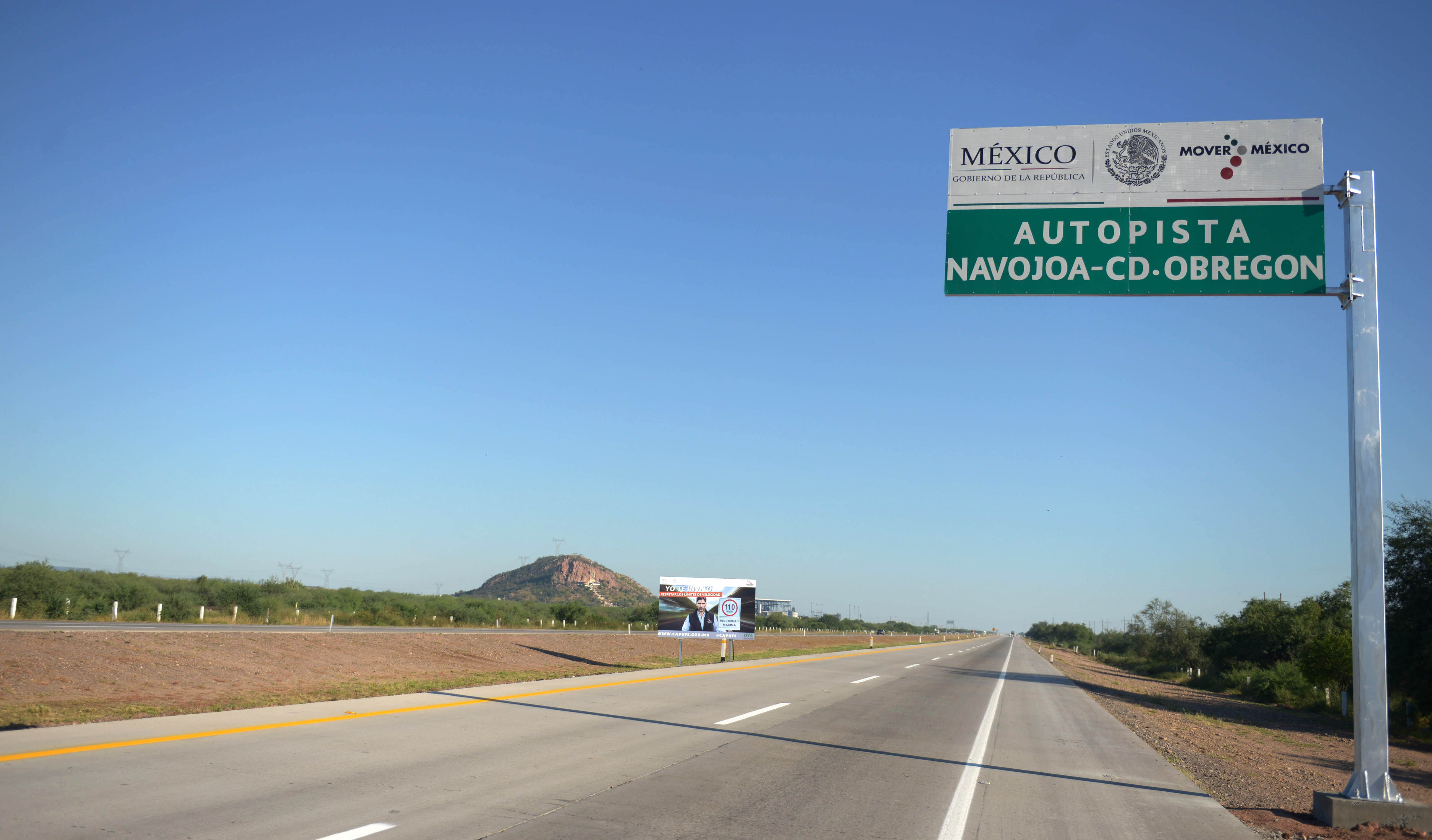 Ampliación y Modernización de la Carretera Navojoa - Cd. Obregón